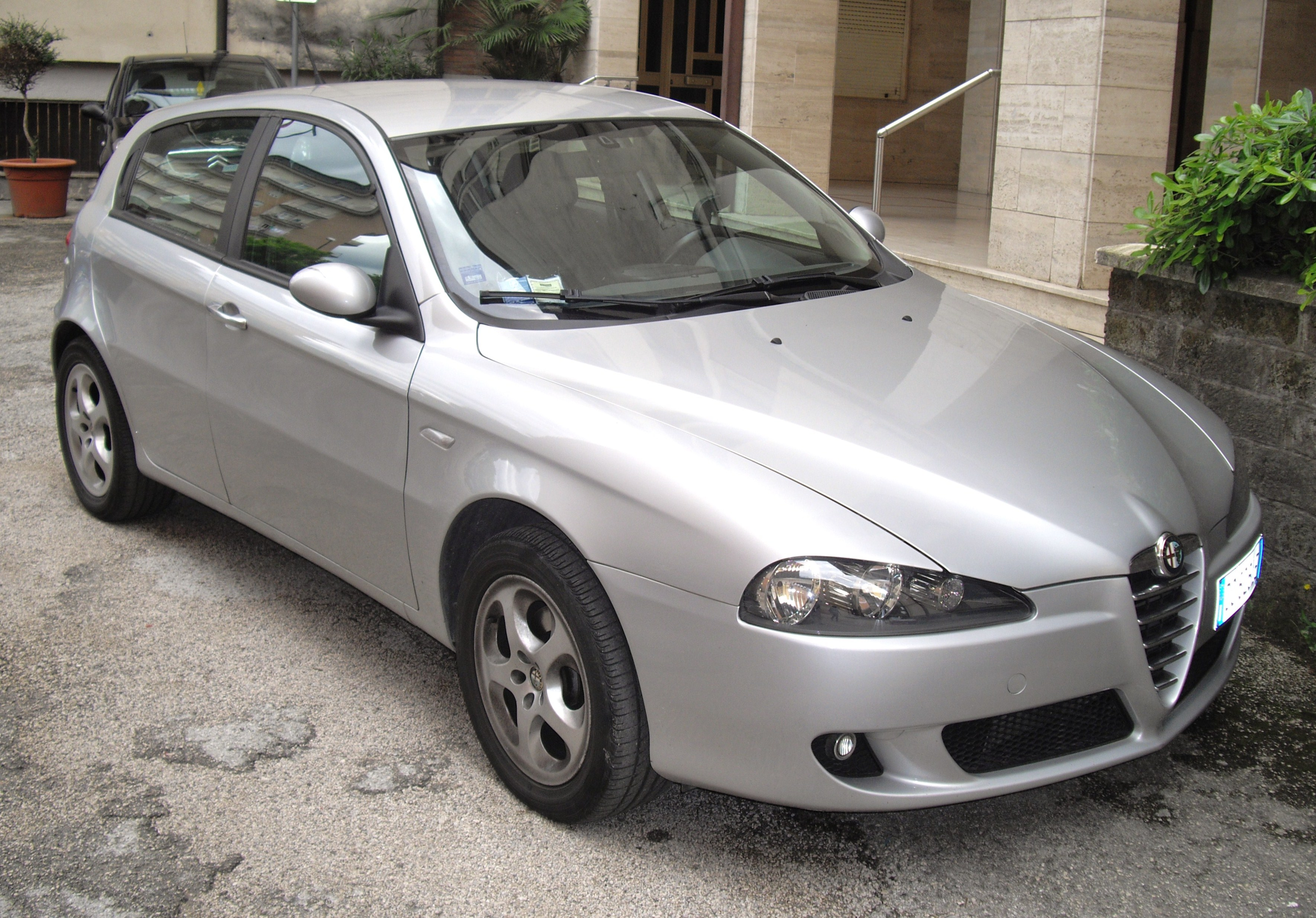 2008 Alfa Romeo 147